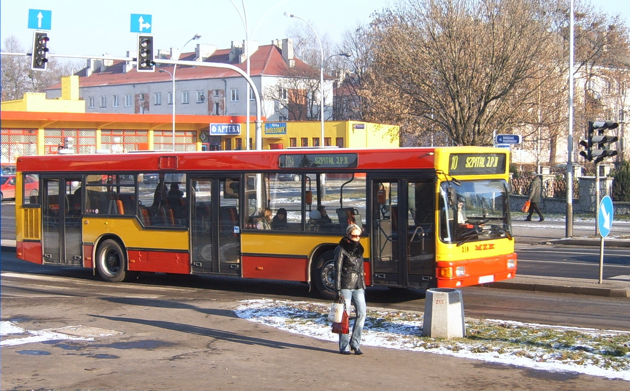 MAN NL 202 bus (#310) in Zamość, Poland. Built 1995, MZK Zamość operator.